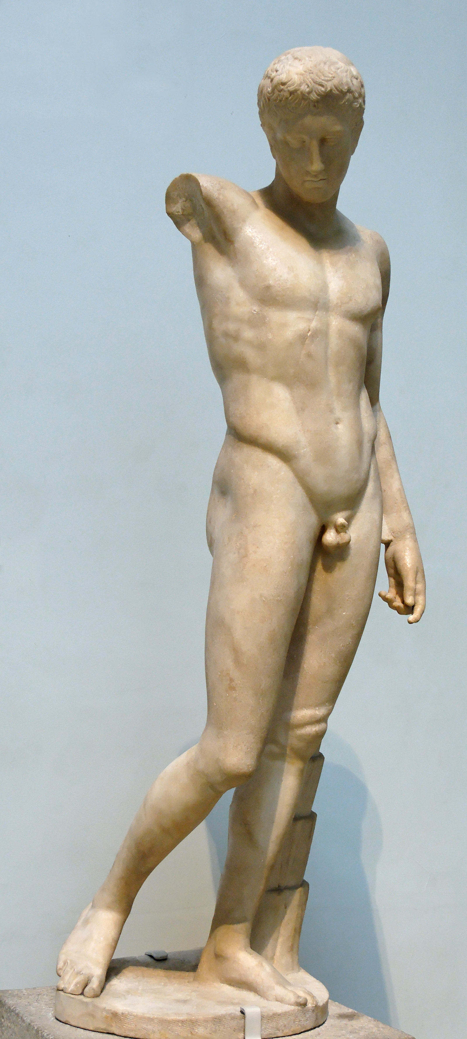 So-called Westmacott Athlete, statue of a victorious athlete crowning himself. Marble, Roman copy of the 1st century AD after a Greek original (the statue of Kyniskos?) of ca. 440 BC.